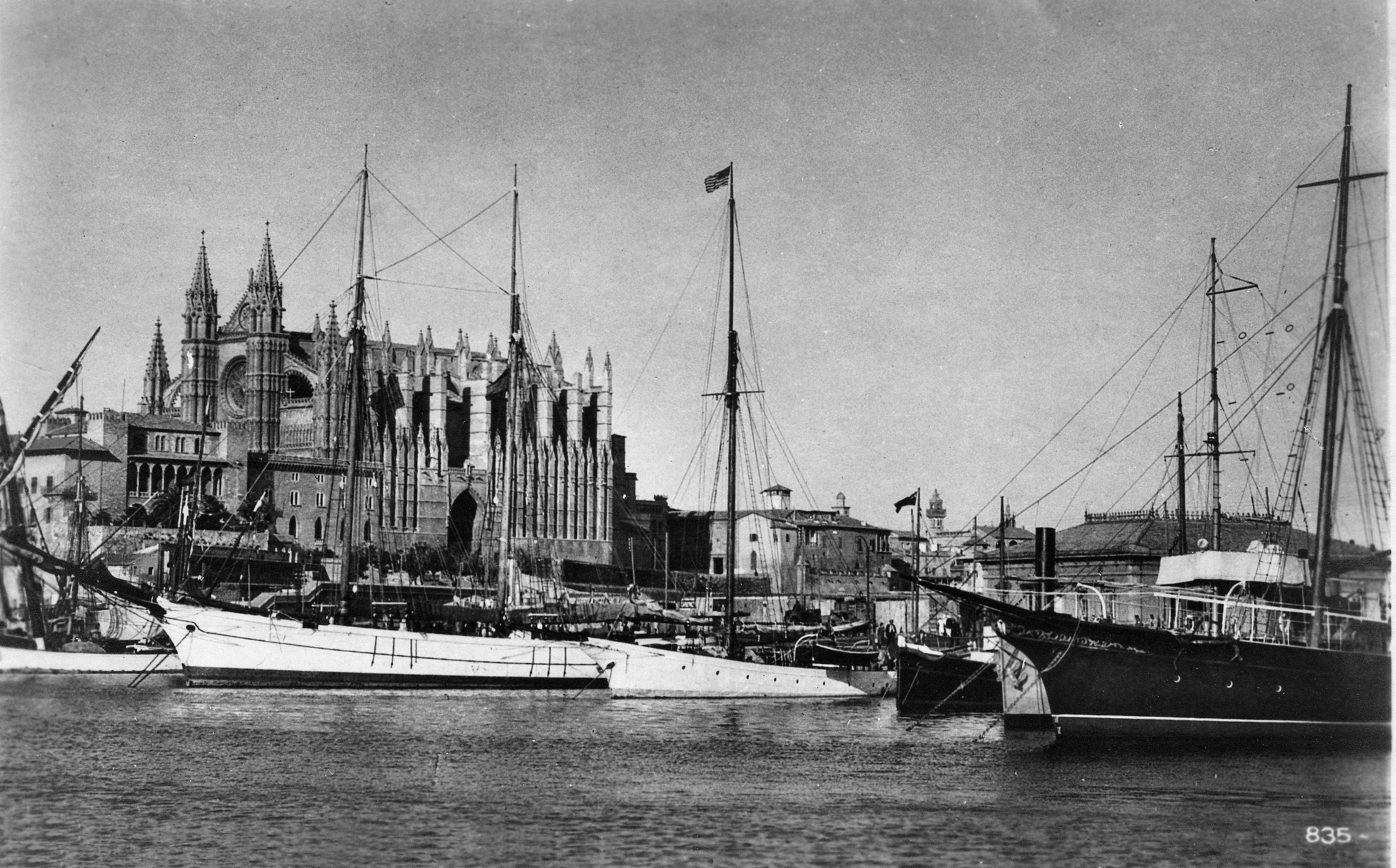 The Palma de Mallorca harbour at the time of sailing ships. One is with the American flag.